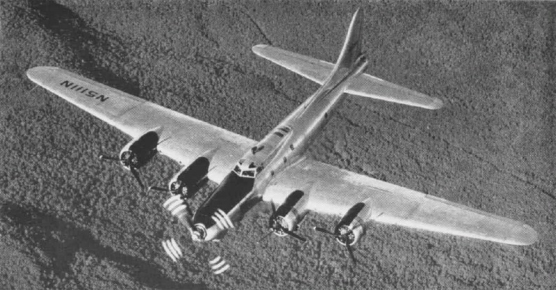 A Boeing B-17 used as the testbed for the Pratt & Whitney T-34 tuboprop engine. In 1945 the U.S. Navy funded the development of a turboprop engine. The T-34 was produced from 1951 to 1960, but never used in a U.S. Navy aircraft. The best known "user" was the Douglas C-133 Cargomaster.